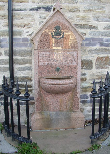 Drinking Fountain, Llanboidy Outside the village hall, and inscribed “This fountain is erected to commemorate the completion of the work for supplying this village with water in compliance with the last wish of W. R. H. Powell M.P.”. The village hall was built in 1881 as a market hall, and the water supply and sewerage system was installed in 1890, the first piped water in Carmarthenshire.